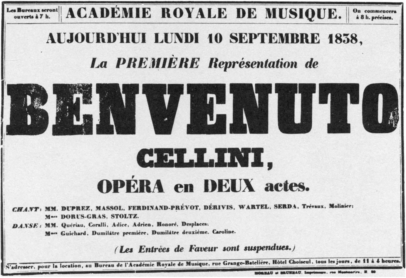 Poster advertising the first performance of the opera Benvenuto Cellini by Hector Berlioz.